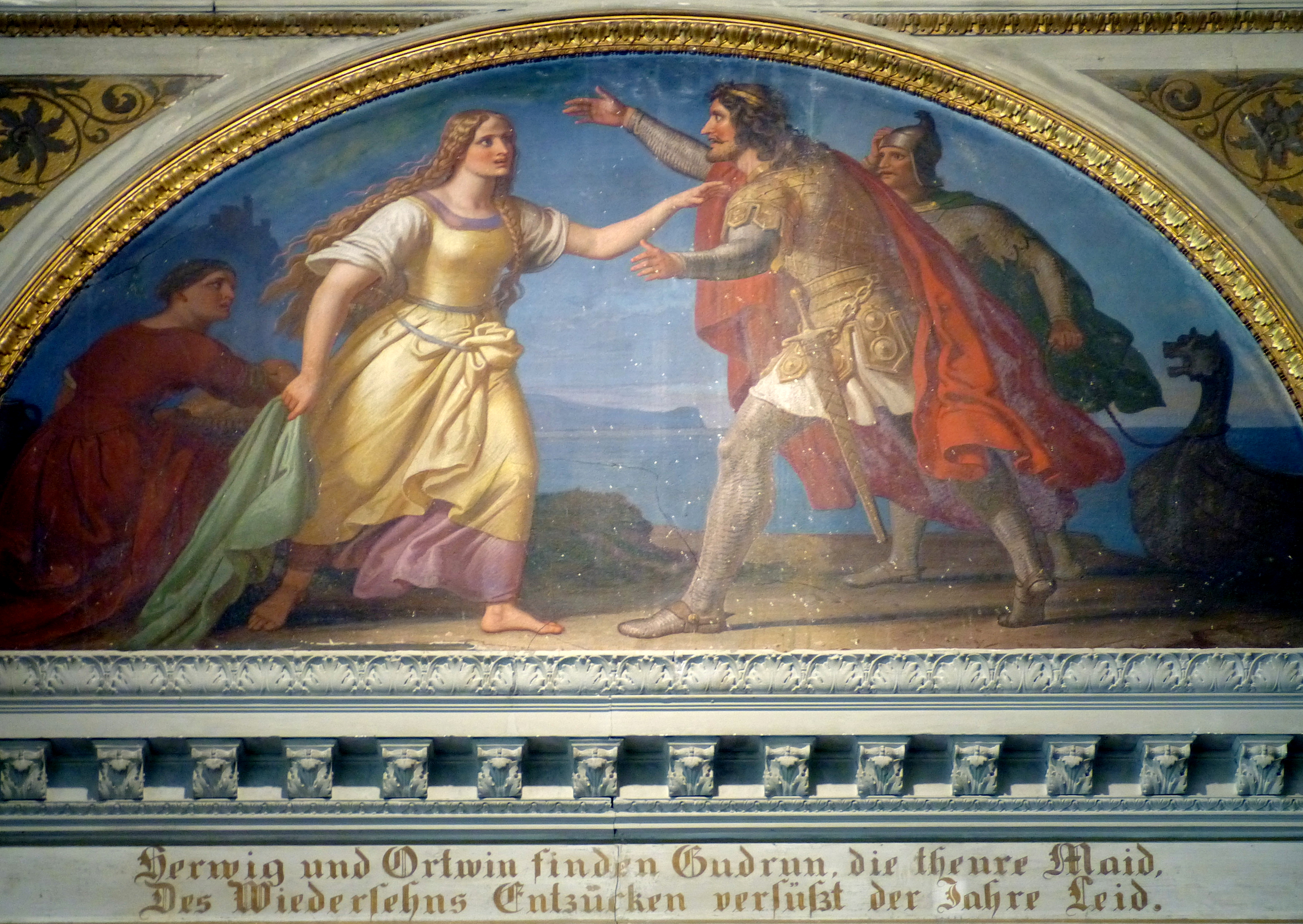 Schwerin Castle ( Mecklenburg ). Legend room ( 1851 ): Herwig and Ortwin find Gudrun.